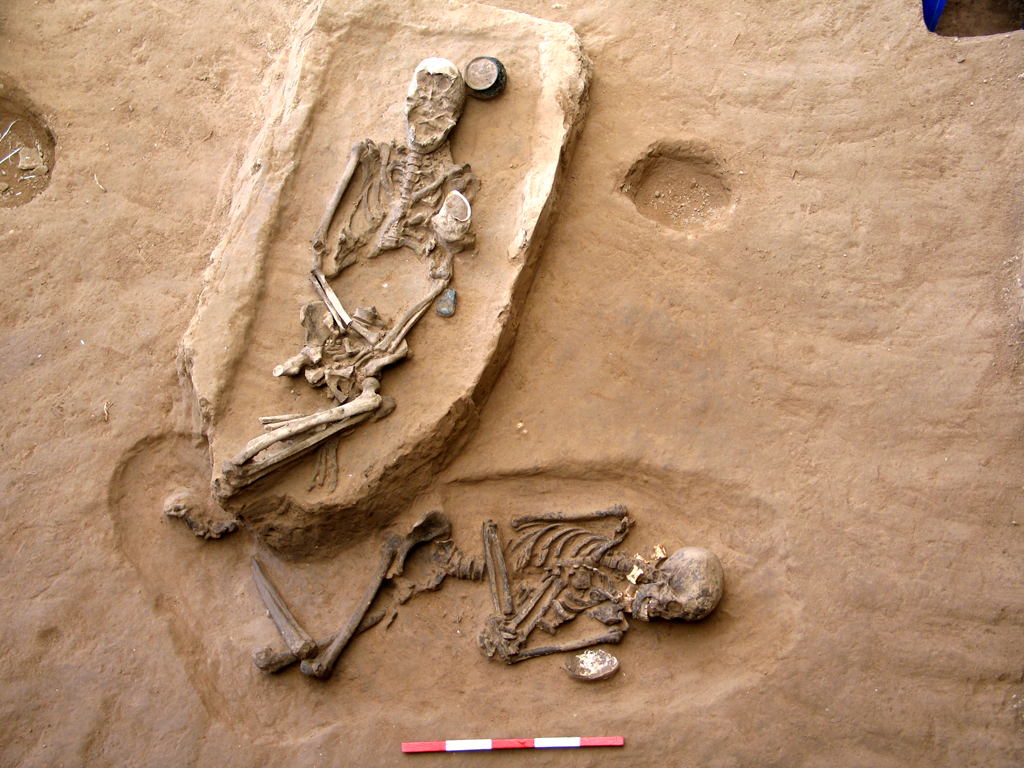 ban non wat